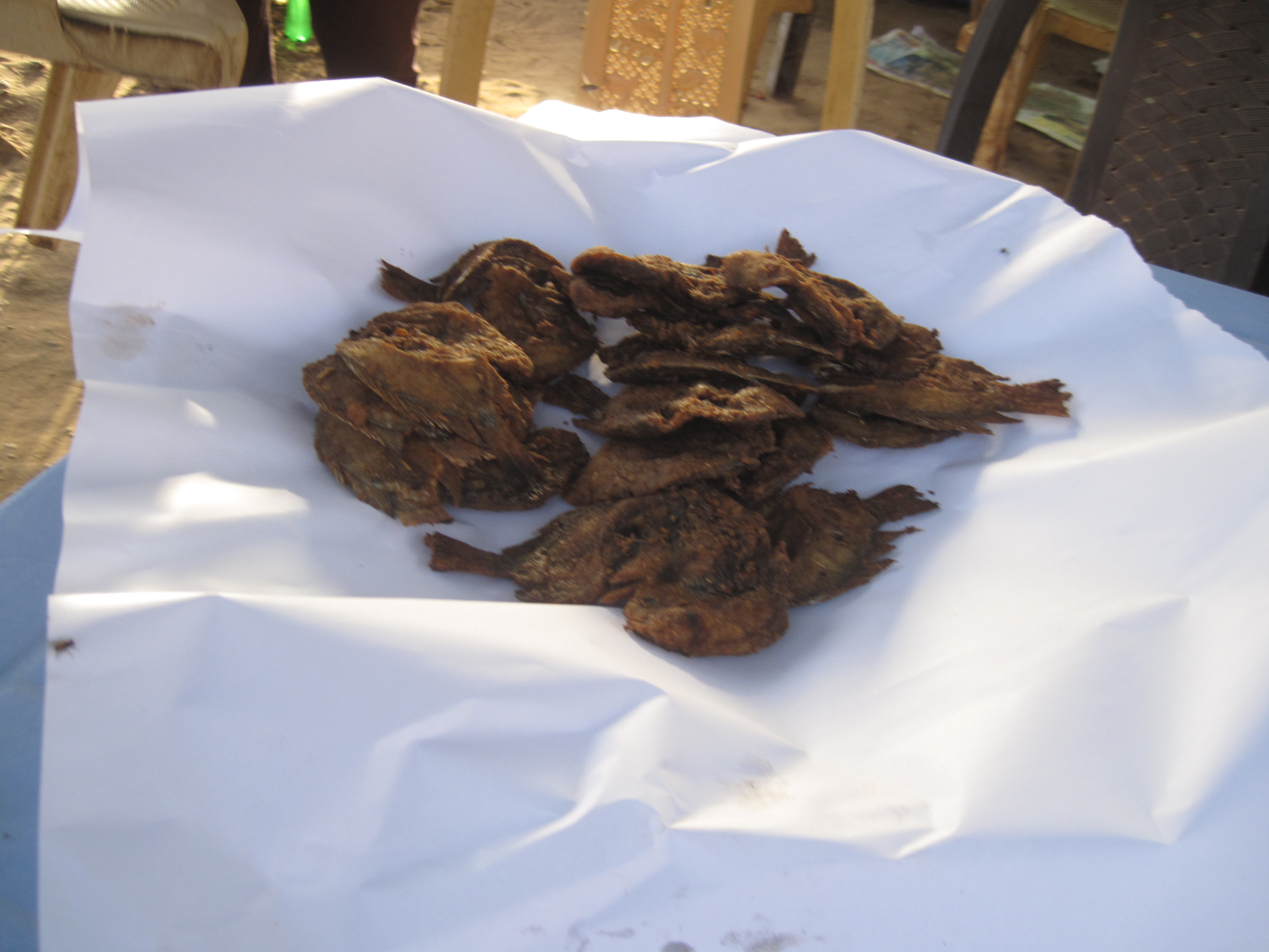 This is an image of food from Sudan